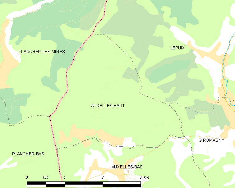 Map of French municipality Auxelles-Haut